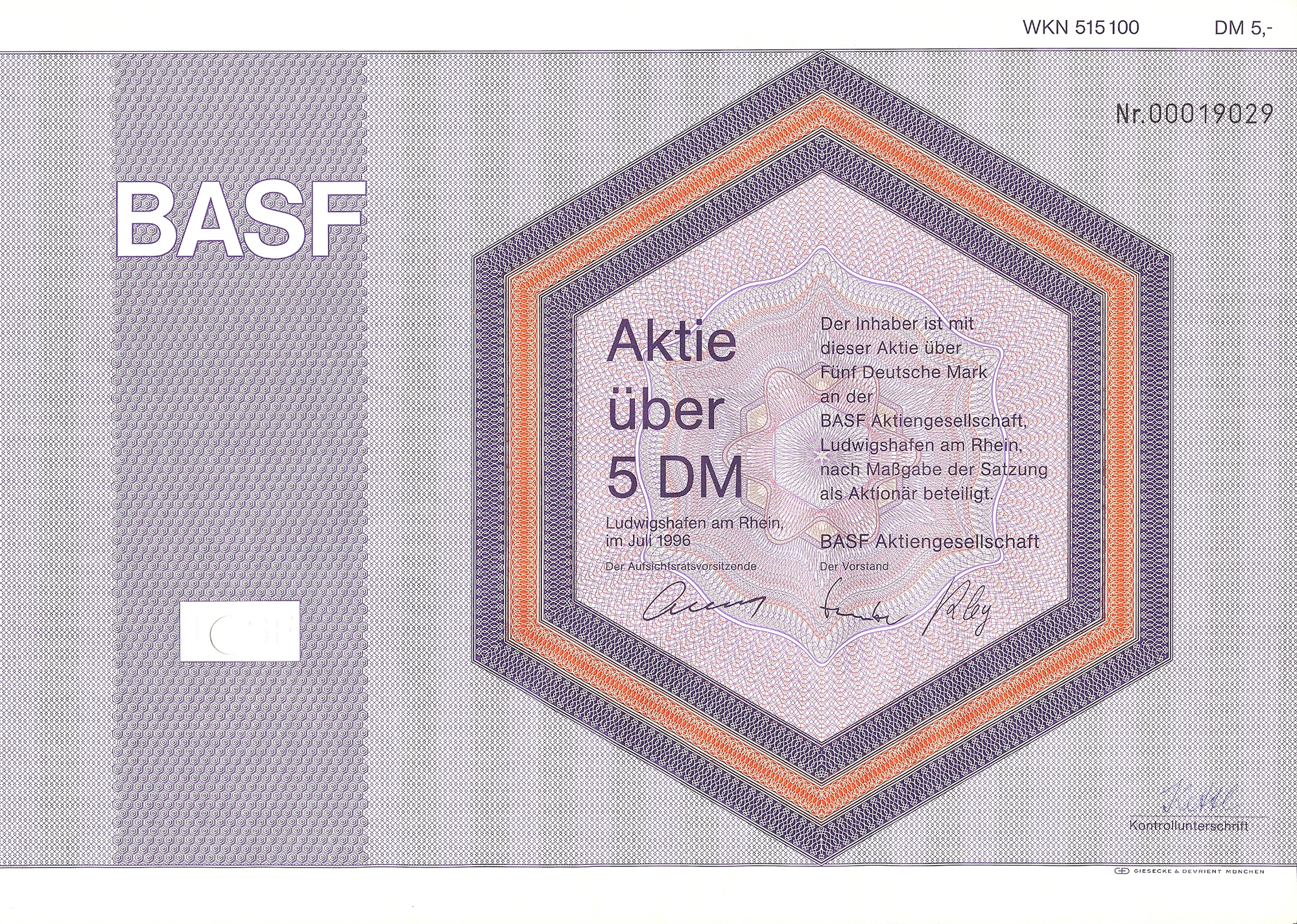 Share of BASF